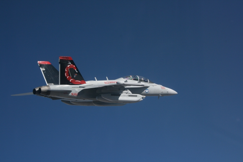 A U.S. Navy Boeing EA-18G Growler (BuNo 166894) from Electronic Attack Squadron 132 (VAQ-132) Scorpions in flight. This was also the aircraft of the "Carrier Air Wing Commander (CAG)".